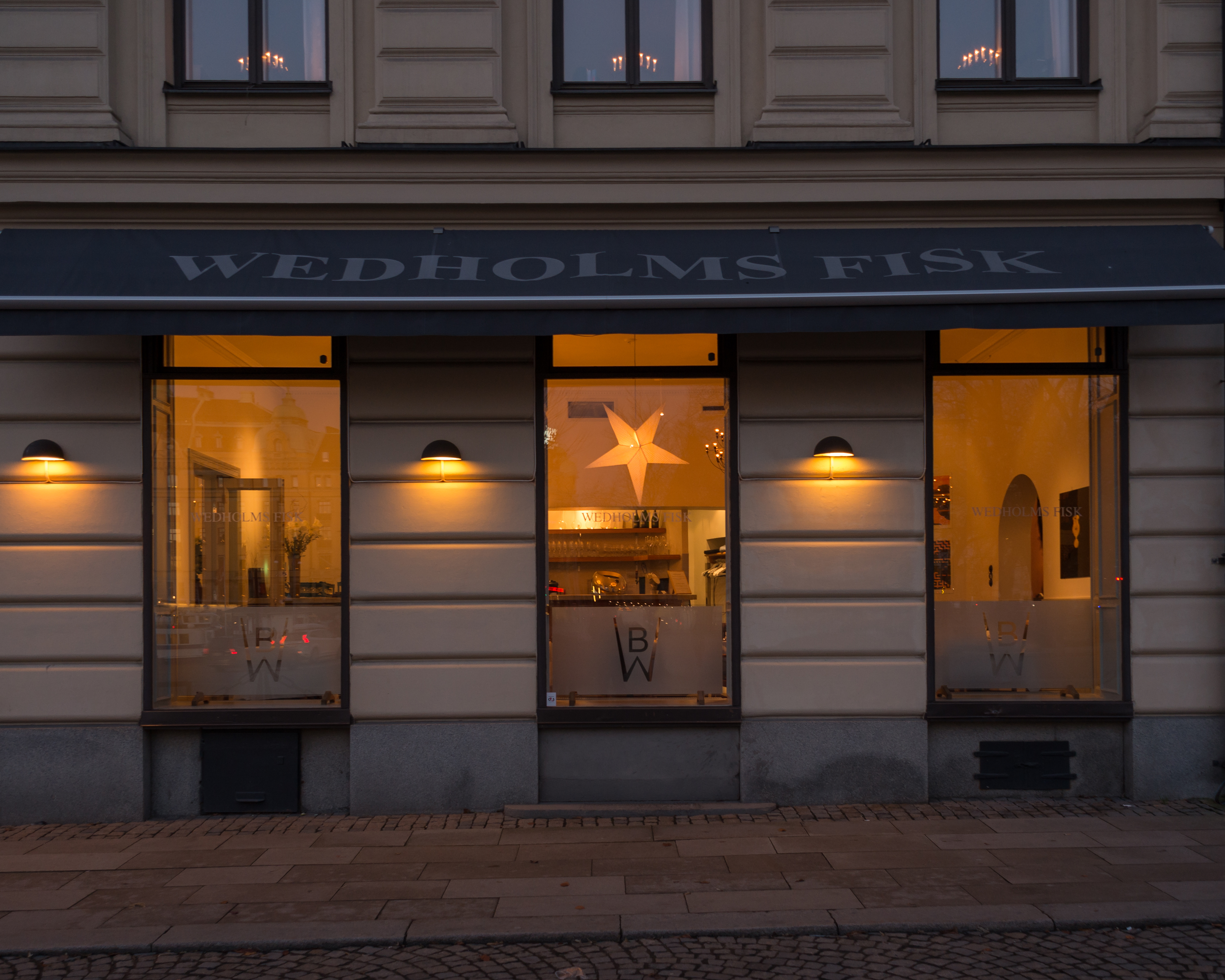 Restaurant Wedholms fisk at Nybroplan in Stockholm.